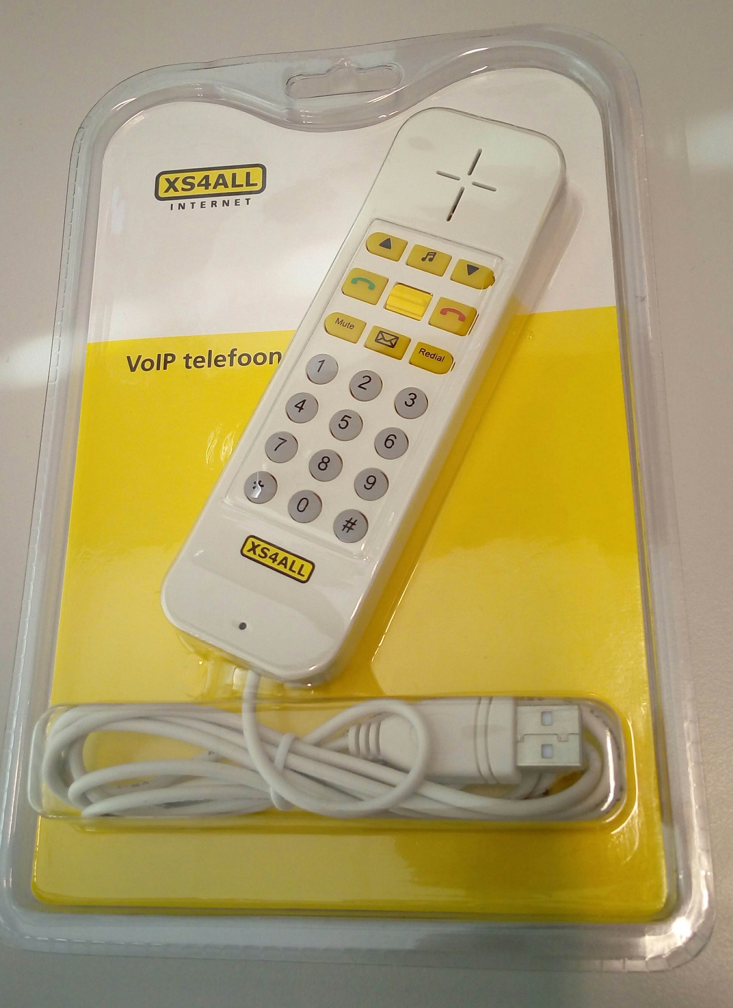 The XS4ALL voip telefoon (voip phone) new in it's package. It was a novelty in 2005.